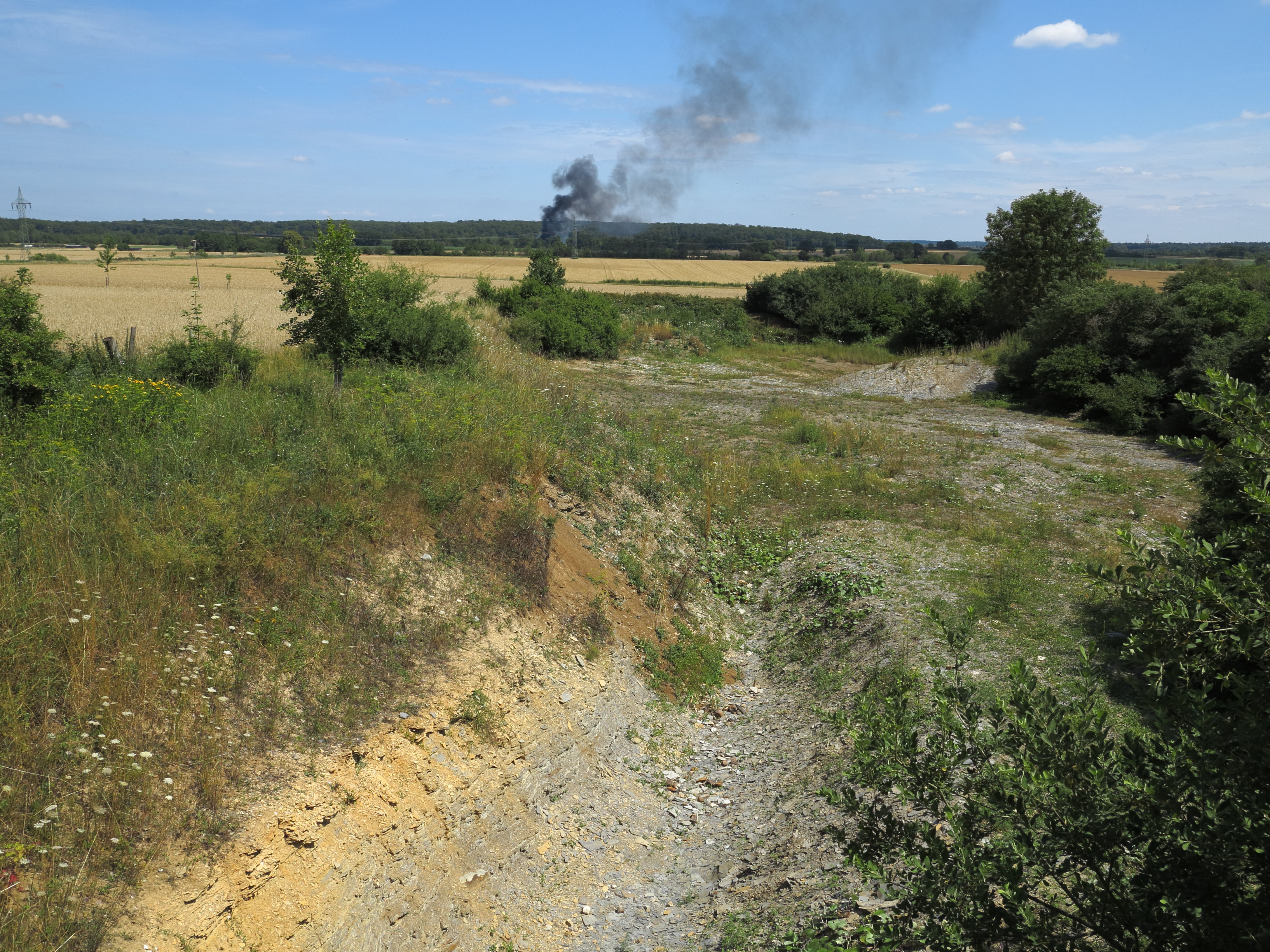 The former marl pit of Hondelage, Germany. It's located in the fringe zone of the Hondelage jurassic trough. Here two Ichthyosaurs aud the skeleton of a Steneosaurus have been found. At the bottom of the image there is an 8 m long stretch of Posidonia Shale exposed. Remark: the black smoke at the horizon is caused by a burning tractor.